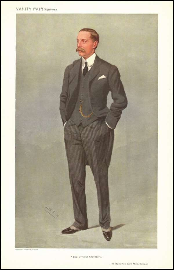 Men of the Day No.1196: Caricature of Lord Monk Bretton JP. Caption reads: "The Private Secretary"